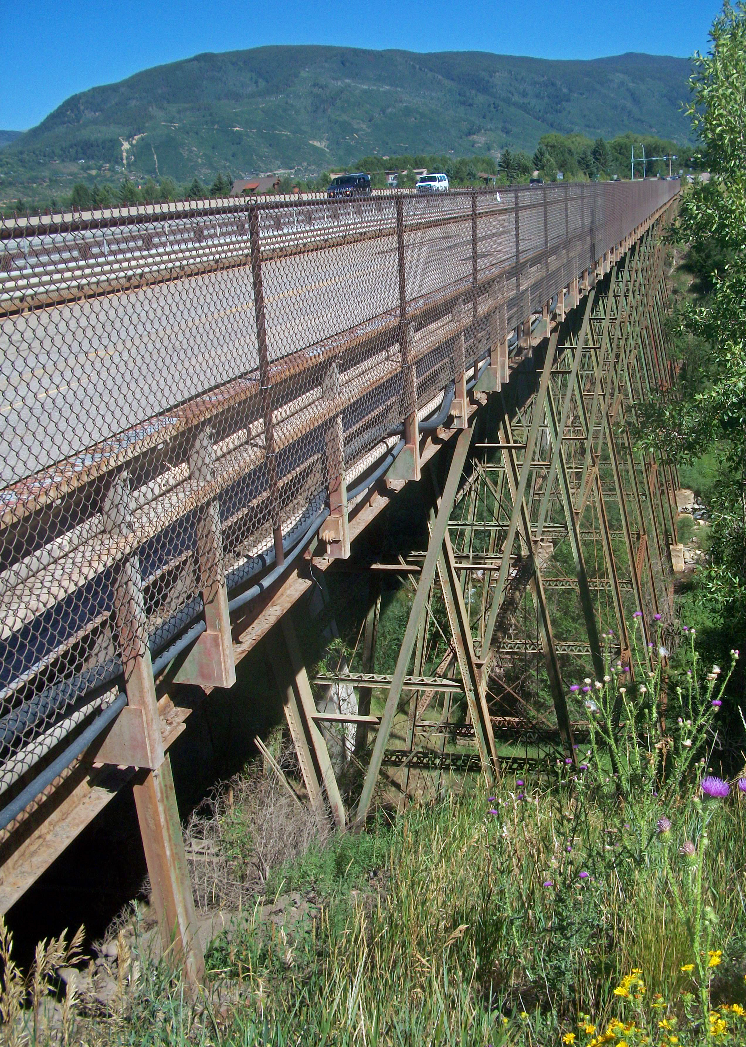 Looking east along the Maroon Creek Bridge along State Highway 82 just outside Aspen, CO, USA